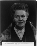 Mrs. Eugenie Anderson, Former United States Ambassador to Denmark.